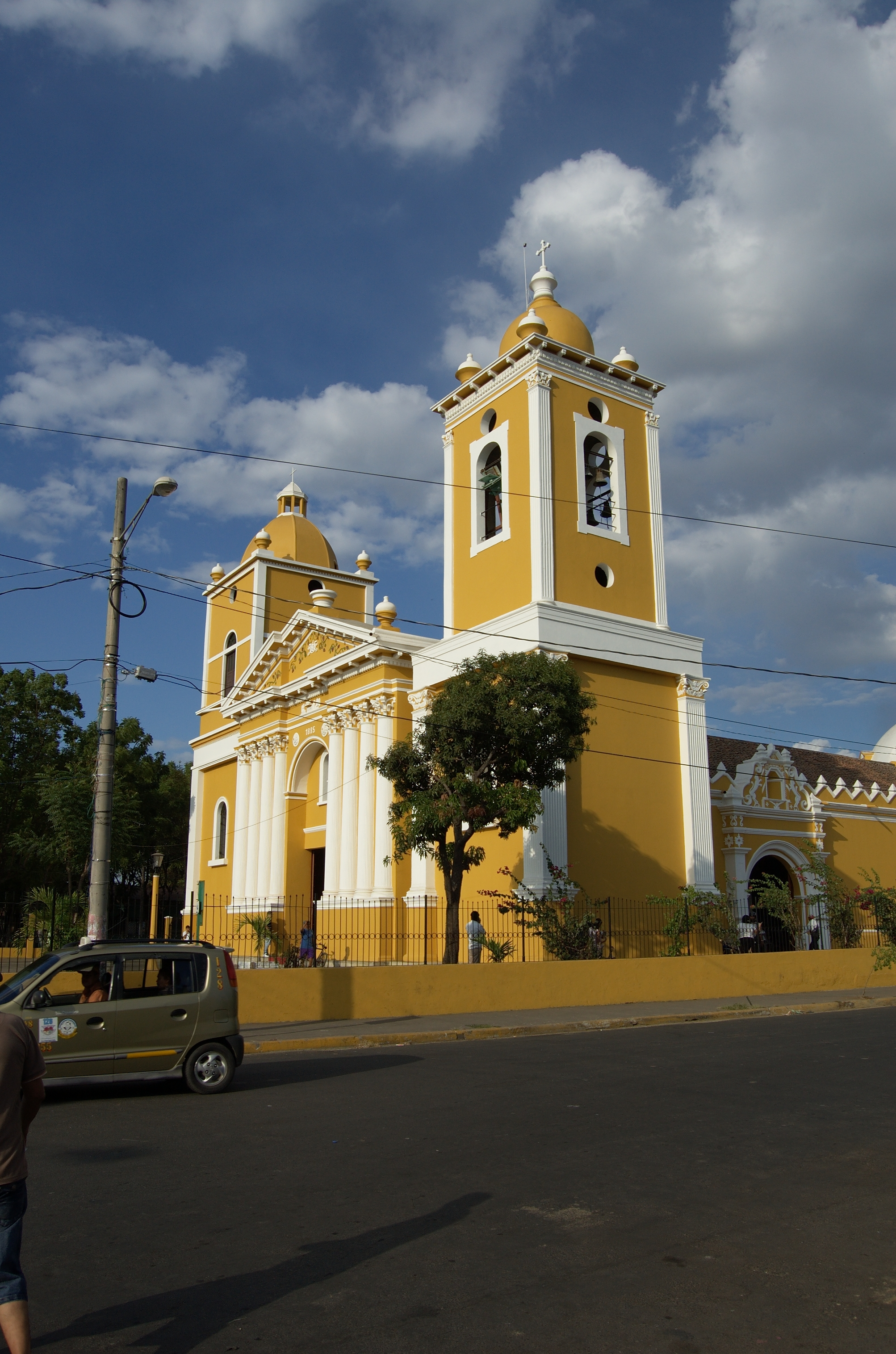 Santa Ana church in Chinandega, Nicaragua